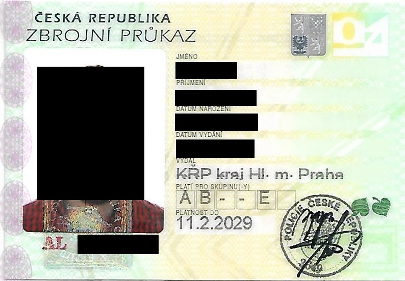 Czech Republic Firearms License issued in 2018.